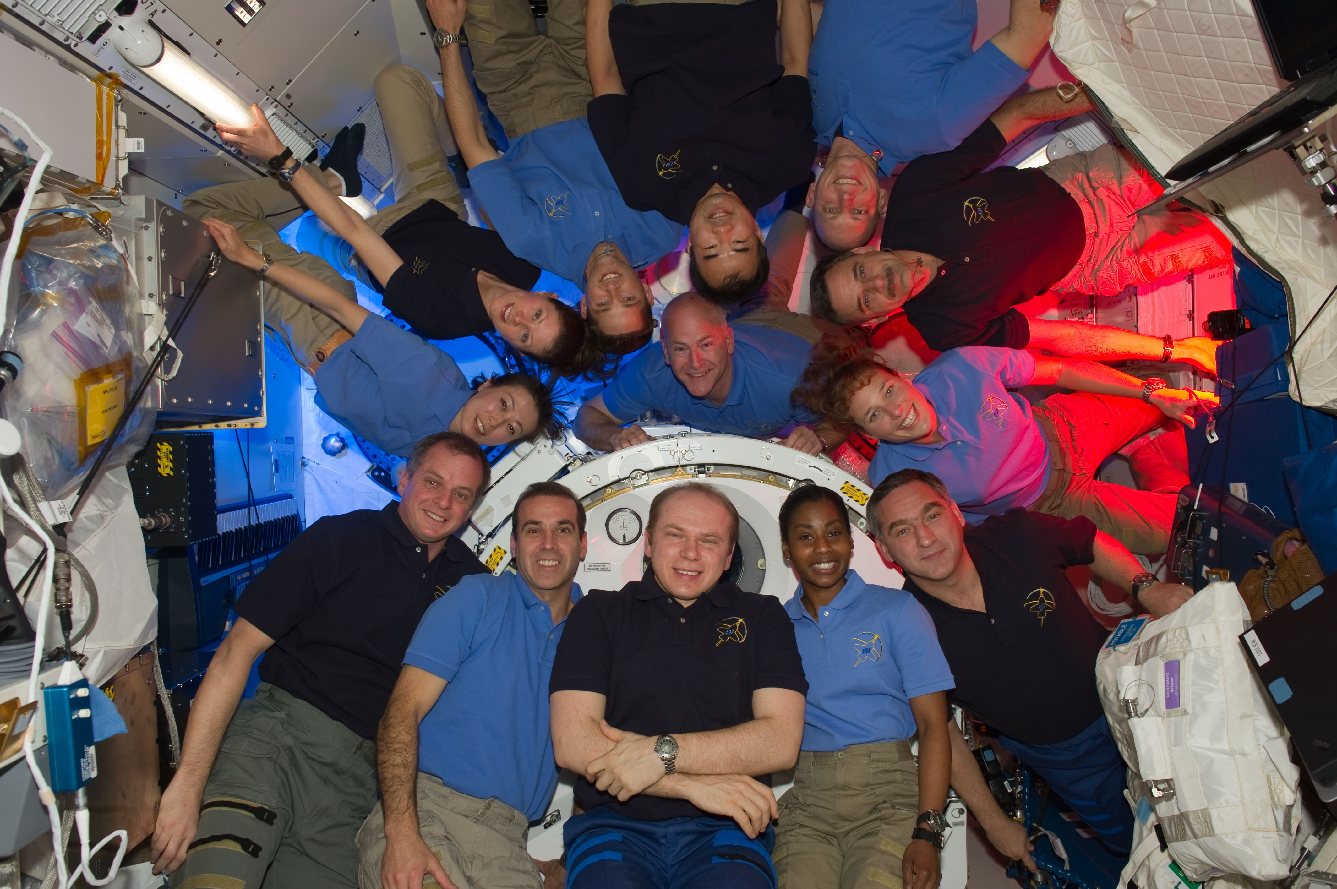 STS-131 and Expedition 23 crew members gather for a group portrait in the Kibo laboratory of the International Space Station while space shuttle Discovery remains docked with the station. STS-131 crew members pictured (light blue shirts) are NASA astronauts Alan Poindexter, commander; James P. Dutton Jr., pilot; Clayton Anderson, Rick Mastracchio, Dorothy Metcalf-Lindenburger, Stephanie Wilson and Japan Aerospace Exploration Agency astronaut Naoko Yamazaki, all mission specialists. Expedition 23 crew members (dark blue shirts) pictured are Russian cosmonauts Oleg Kotov, commander; Mikhail Kornienko and Alexander Skvortsov; Japan Aerospace Exploration Agency astronaut Soichi Noguchi, and NASA astronauts T.J. Creamer and Tracy Caldwell Dyson, all flight engineers.